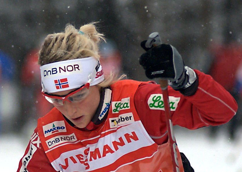 Therese Johaug at the Tour de Ski 2010 in Oberhof